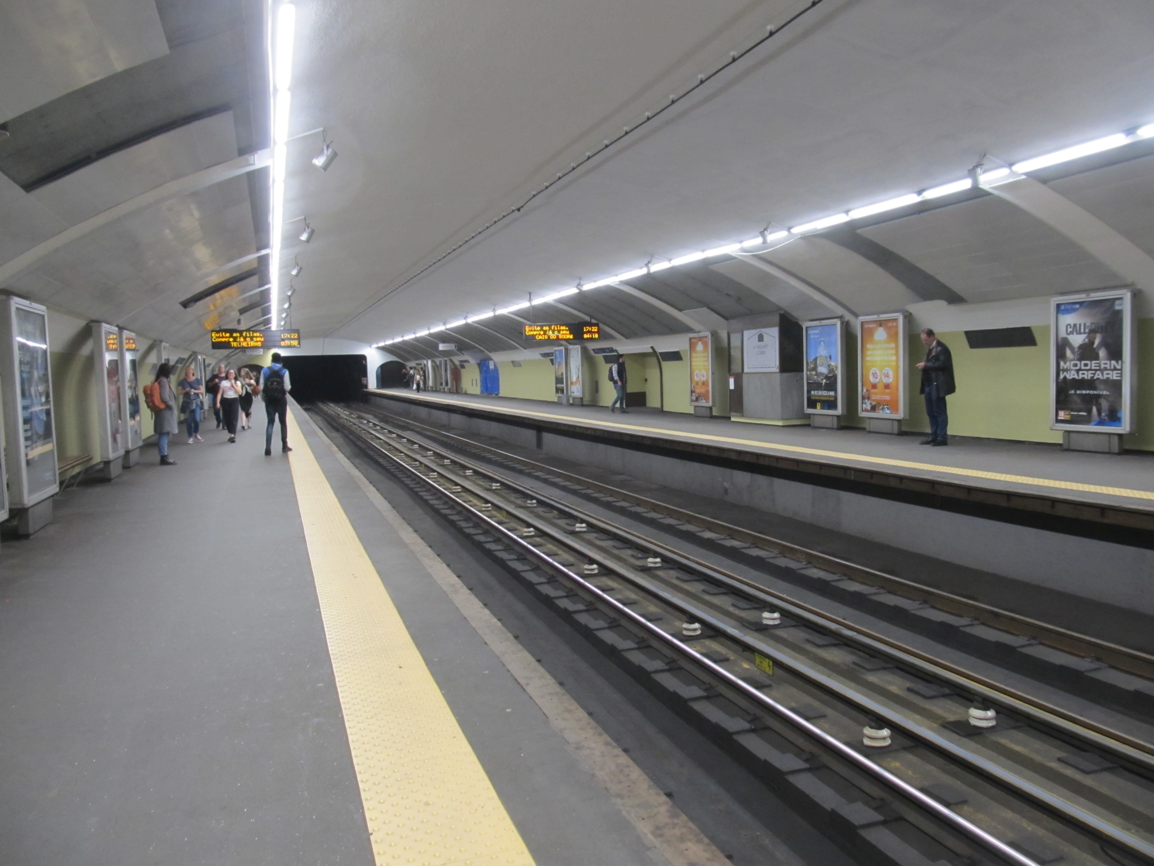 Metro station Anjos in Lisbon.